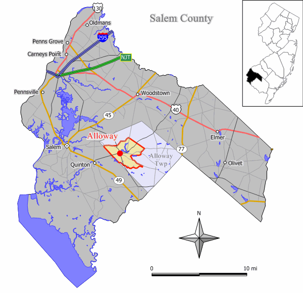 Source: Jim Irwin Original work by Jim Irwin, December 2005.